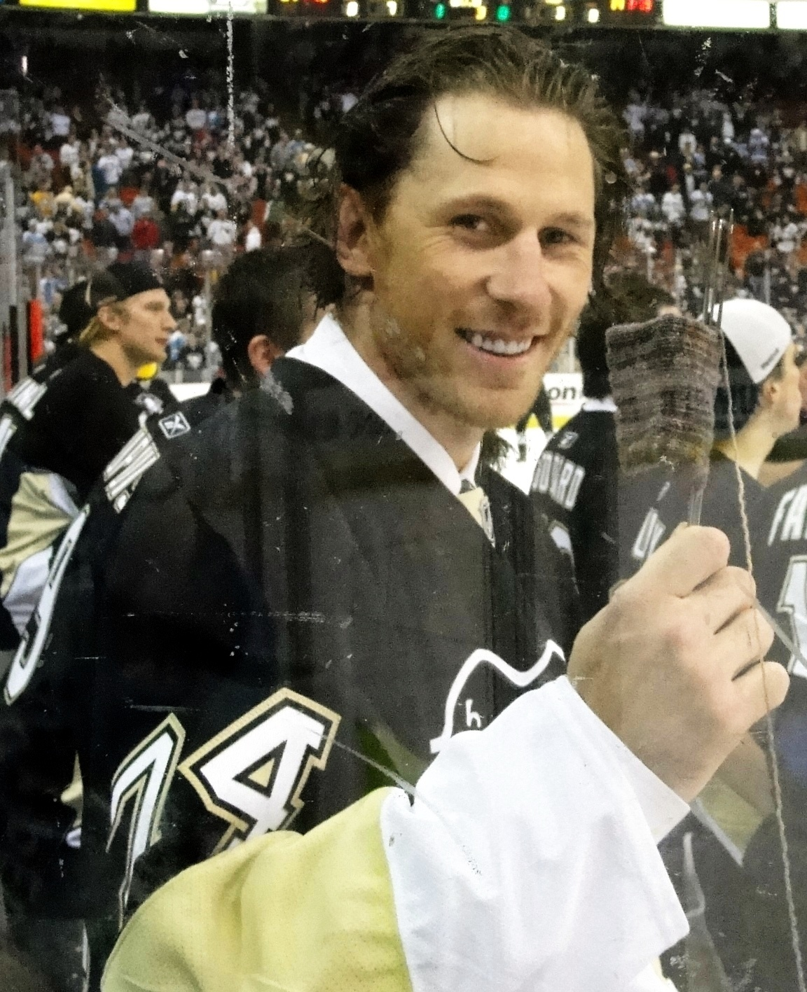 Pittsburgh Penguins defenseman Jay McKee poses with the sock being knitted at games by a fan known as "the Knitting Lady". McKee was waiting his turn during the "Shirts off our backs" promotion following the Penguins 7-3 victory over the New York Islanders in the final regular season game ever at Mellon Arena in Pittsburgh, PA. April 8, 2010.